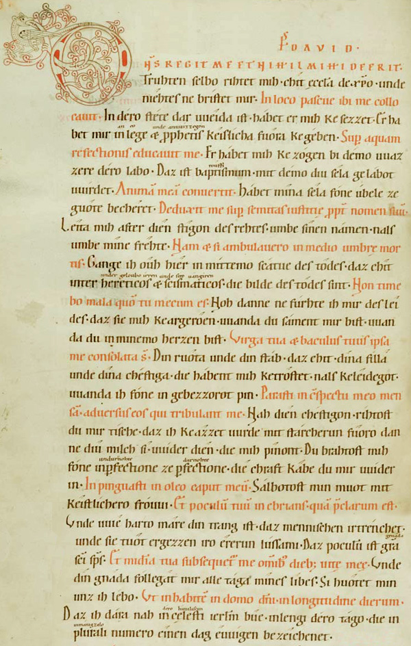 Commentaries to Latin psalm 22 (23) in old high german by Notker Labeo (about 950 - 1022)